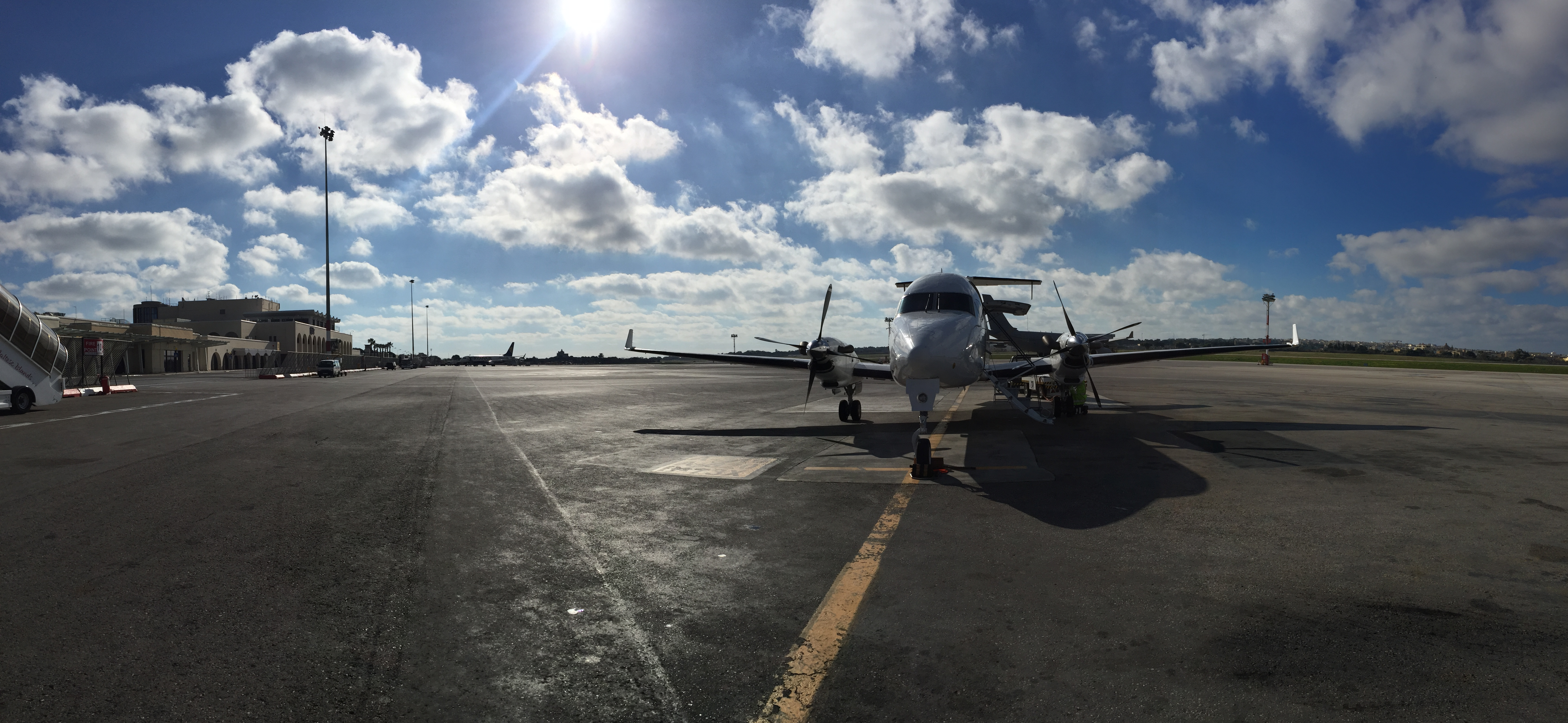 Medavia B190 9H-AFI parked in LMML Apron 08